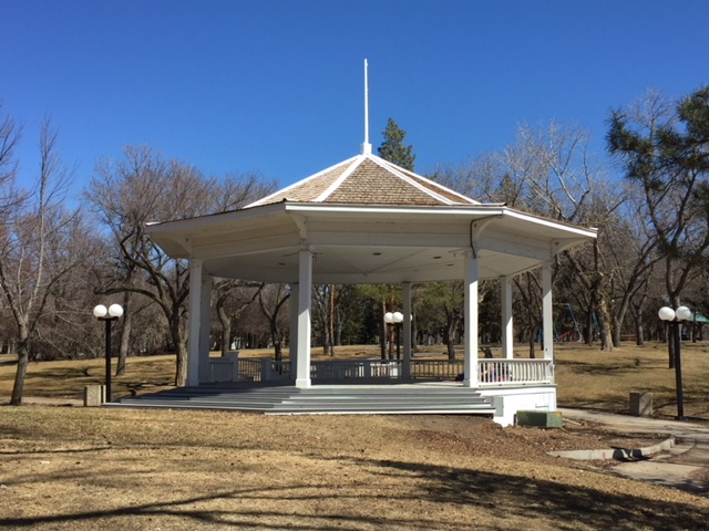 Bandstand in Wascana Park, Regina, Saskatchewan